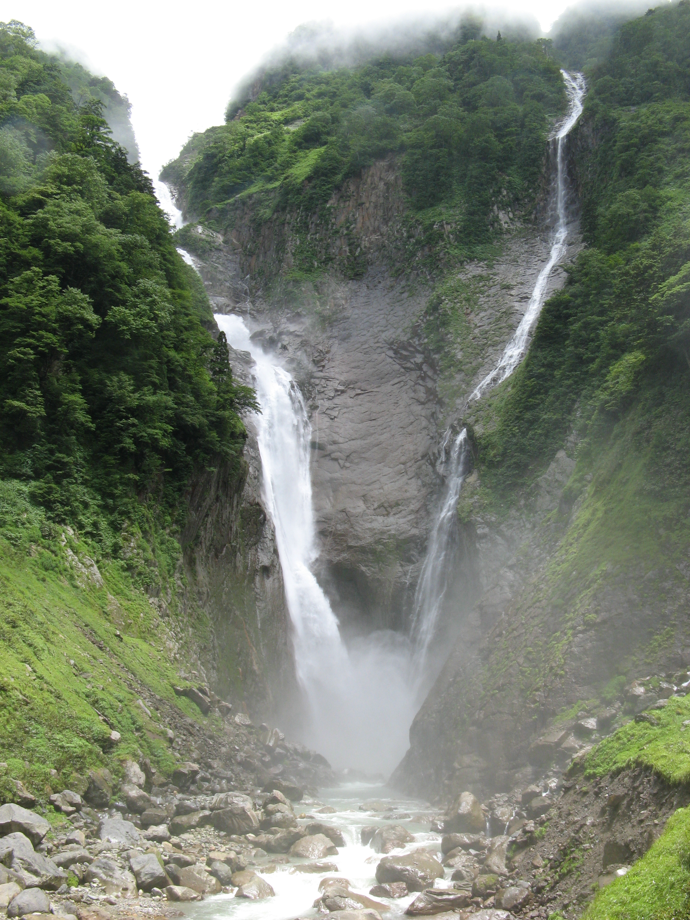 称名滝(左側)とハンノキ滝(右側)。富山県立山町。 / The Shōmyō-daki (Shōmyō falls. Left side) and the Hannoki-daki (Hannoki Falls. Right side). Tateyama